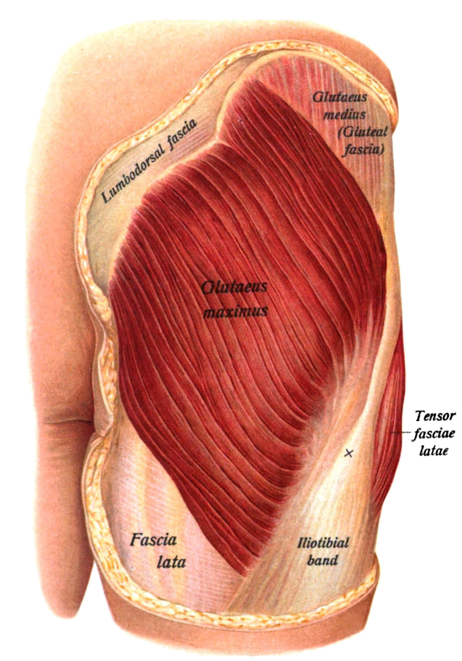 An anatomical illustration from the 1909 edition of Sobotta's Atlas and Text-book of Human Anatomy with English terminology.